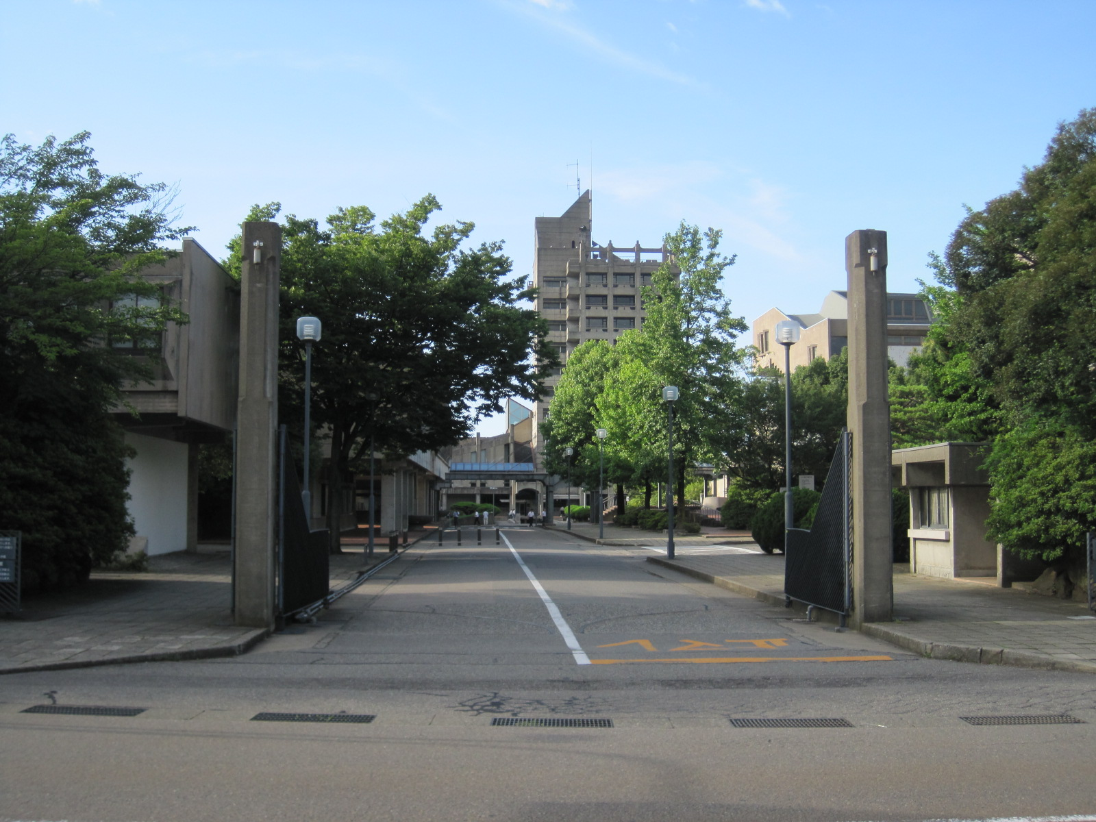 Kanazawa Institute of Technology(Nonoichi town, Ishikawa prefecture)